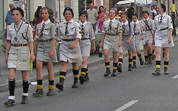 Converted from a png photograph.